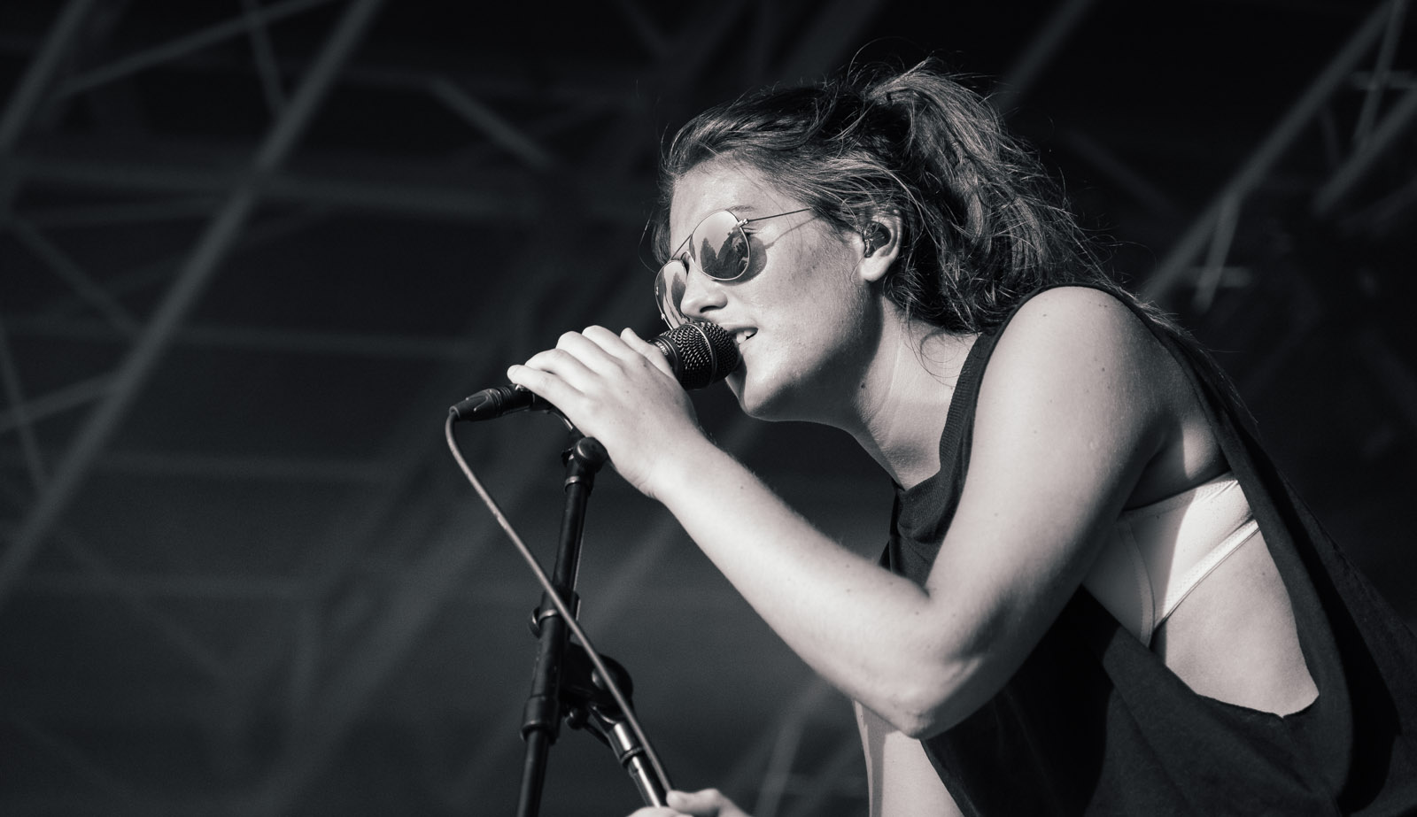 Draape performing at Maakeskrik 2013